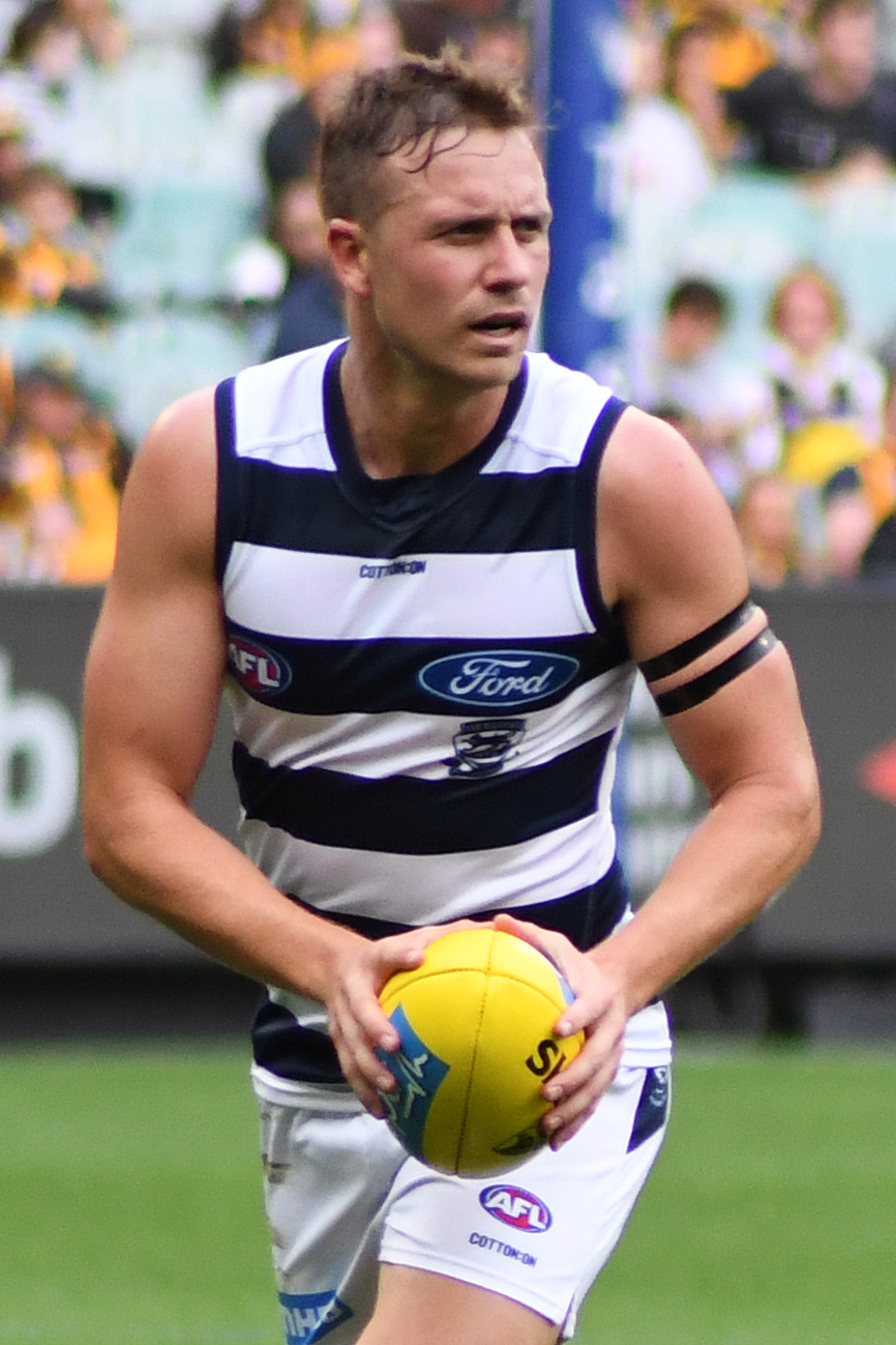 Mitch Duncan of Geelong during the 2019 AFL round 5 match between Hawthorn and Geelong at the Melbourne Cricket Ground on Monday, 22 April 2019 in Melbourne, Victoria.